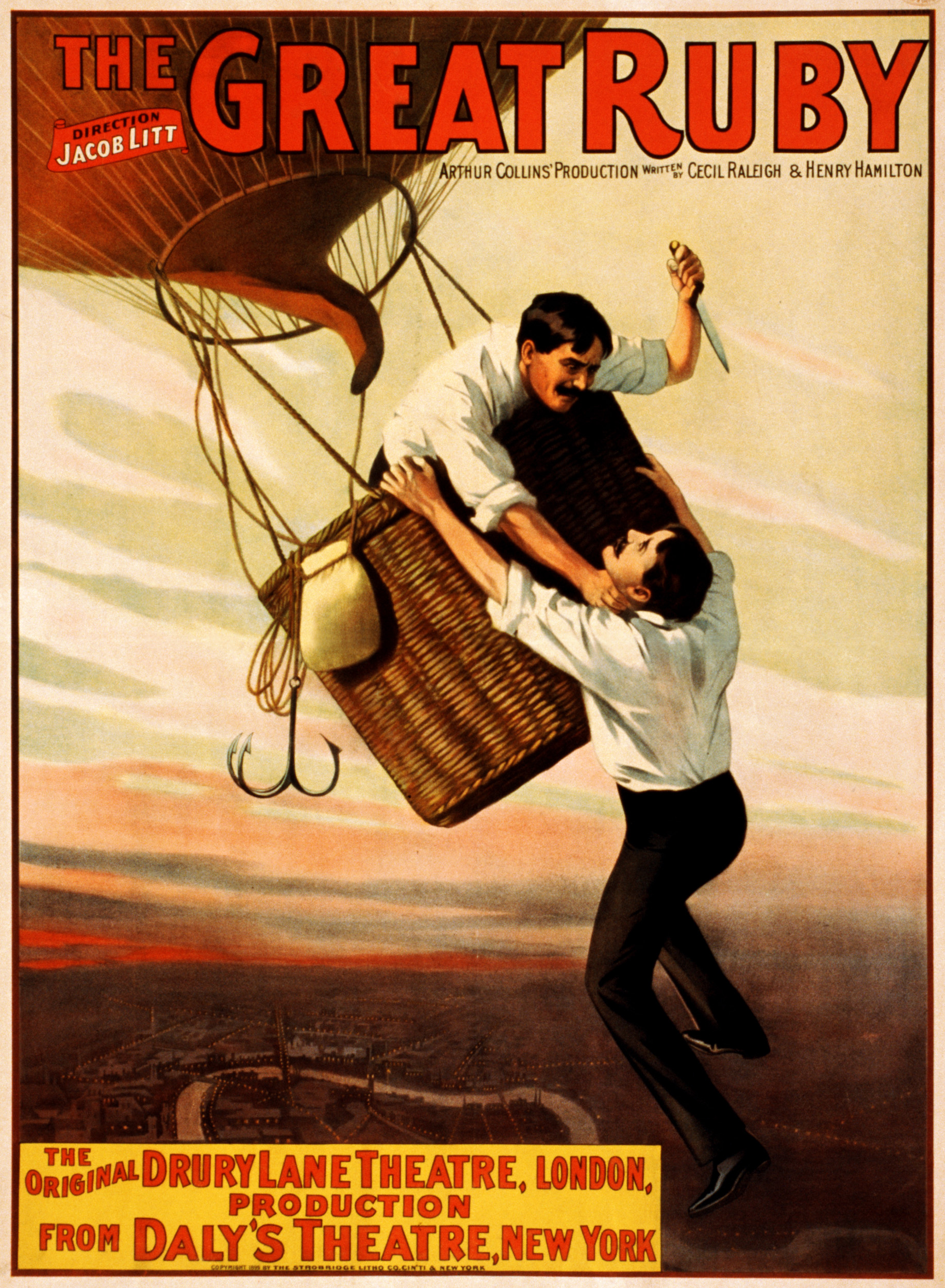 The Great Ruby. Direction, Jacob Litt; Arthur Collins' production; written by Cecil Raleigh & Henry Hamilton. The original Drury Lane Theatre, London production, from Daly's Theatre, New York. Promotional poster for the theater play. The New York Times review: "The Great Ruby," now on view at Daly's, possesses the priceless element of vitality. It throbs with living interest from beginning to end, in spite of the unnecessary confusion of incidents in the story. With very little care the authors might have avoided the slight bewilderment caused by their loose treatment of the story between the sleep-walking episode (which is theatrically effective in spite its essential absurdity) and the encounter of the detective and the thieves in the pseudo Countess's apartment.